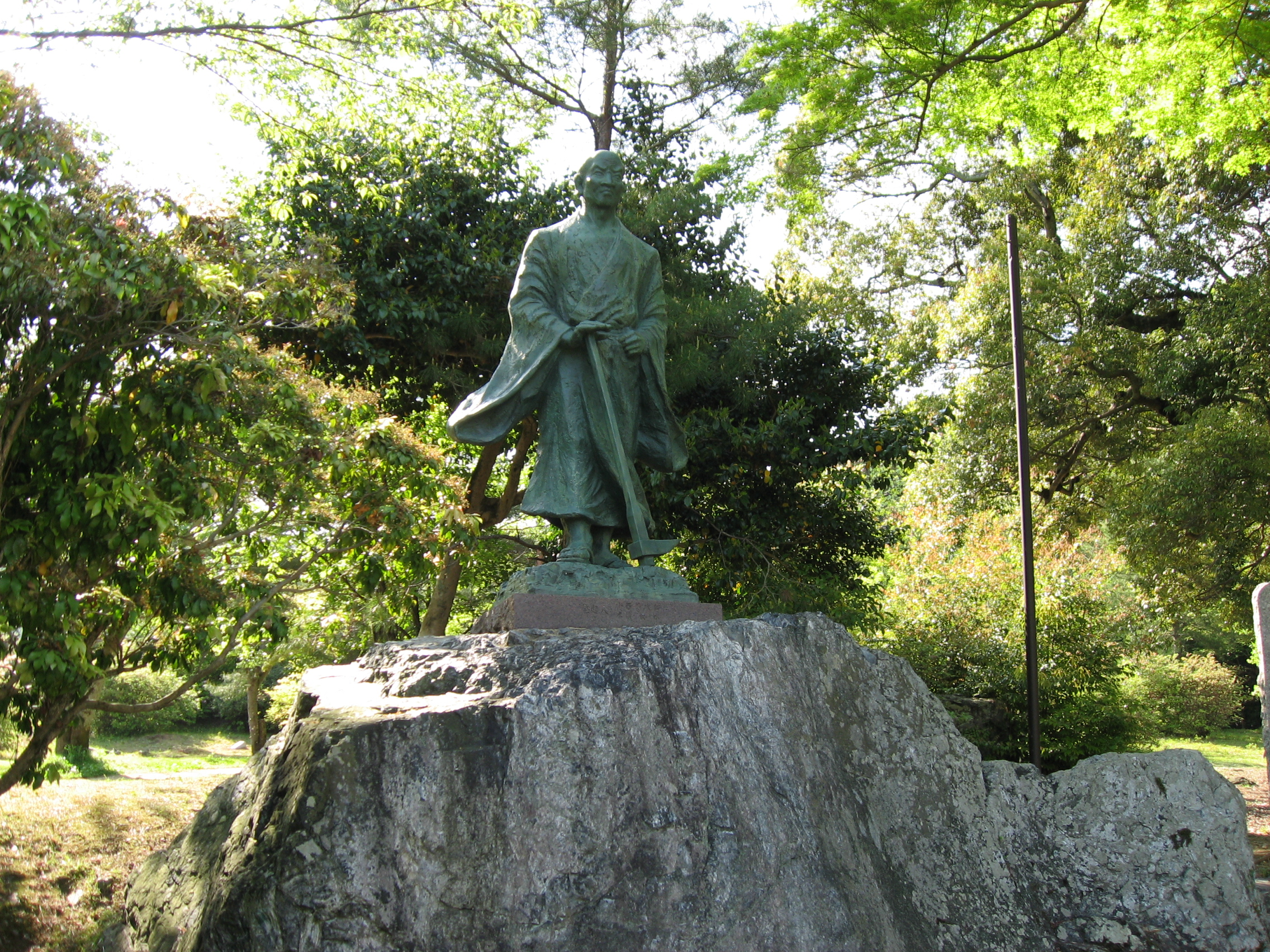 Statue of Suminokura Ryōi in Kameyama park, Kyoto.